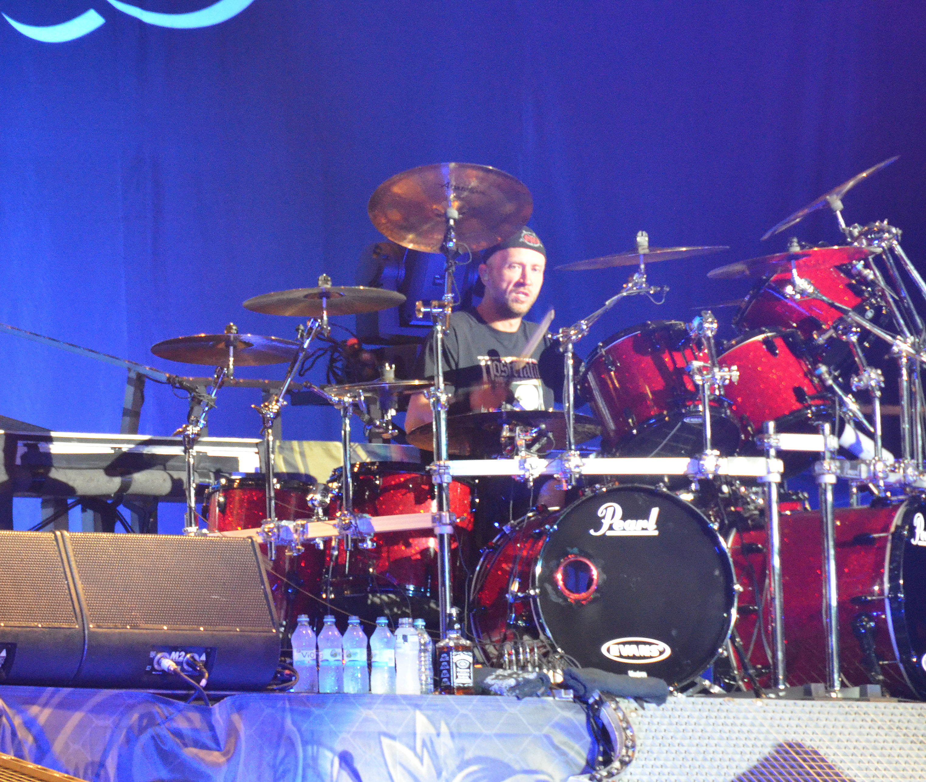 Volbeat at Wacken Open Air 2012